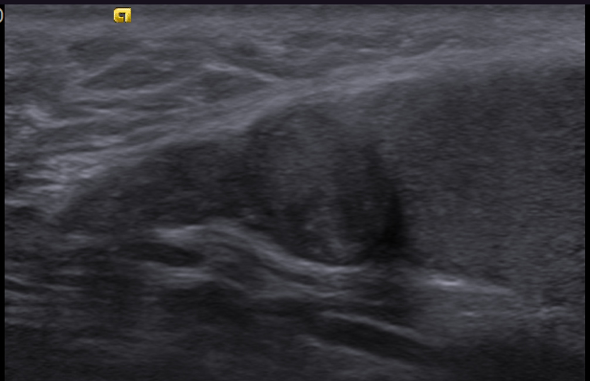 adenomatoid tumour of epedidymis (pathology confirmed)